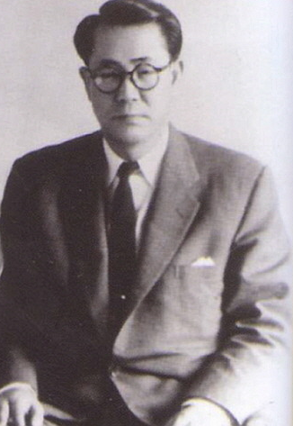 Image of former South Korean President Choi Kyu Hah during his time at the Japanese Consulate